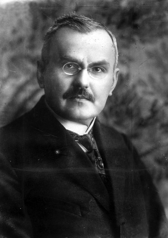 Władysław Grabski